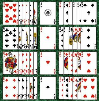 This is a diagram of the game of Beleaguered Castle, based on an actual layout. The image is made in Microsoft Paint and the cards used were based on the SVG Playing Cards.